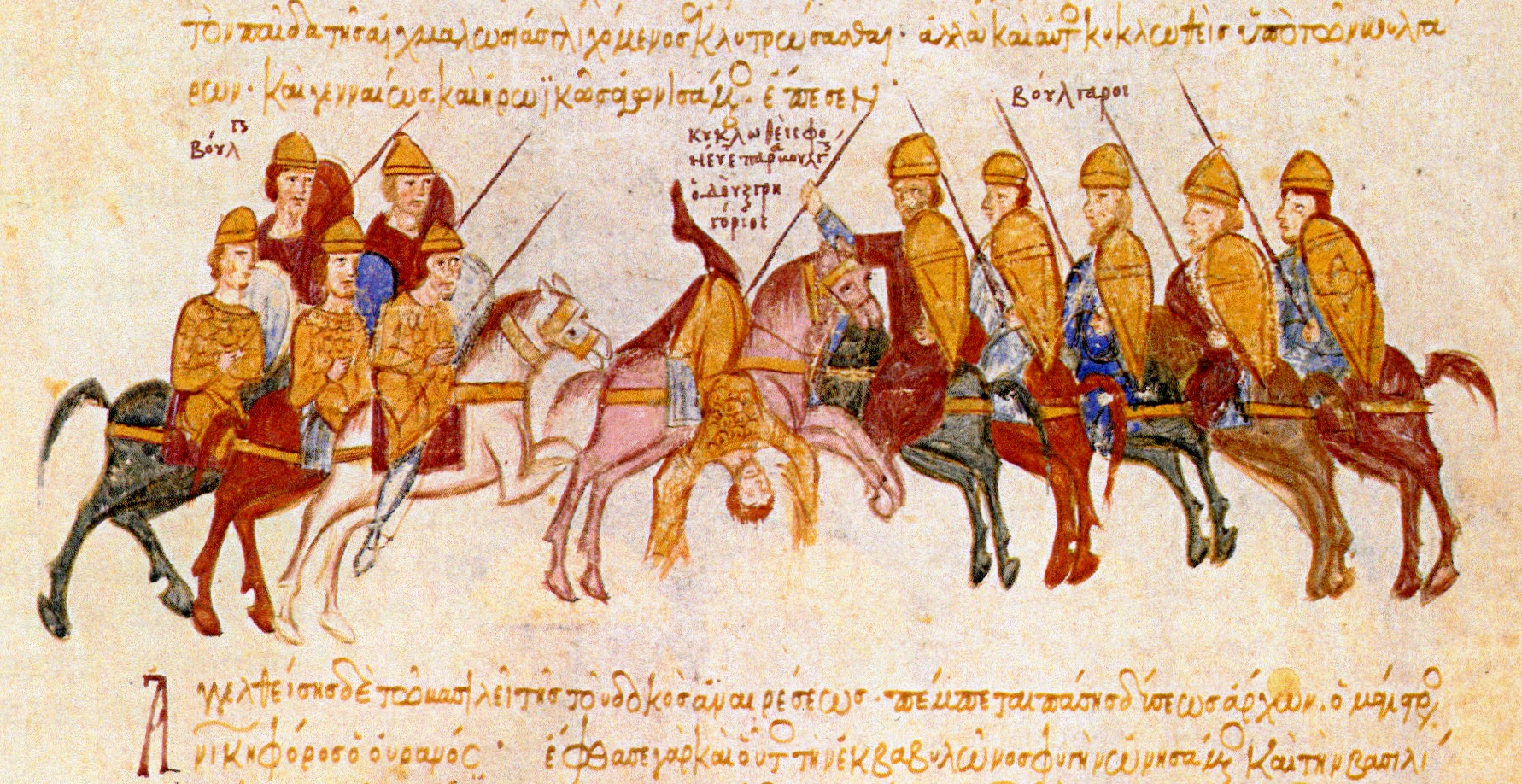 Skyllitzes Matritensis, fol. 184v, detail. Miniature: Bulgarians kill the governor of Thessaloniki Duke Gregory Taronites. Text from the Chronicle of John Skylitzes: "... Samuel was campaigning against Thessalonike. He divided the majority of his forces to man ambushes and snares but he sent a small expedition to advance right up to Thessalonike itself. When duke Gregory [Taronites] learnt of this incursion he despatched Asotios, his own son, to spy on and reconnoitre the [enemy] host and to provide him with inteligence and then he himself came along afterwards. Asiotios set out and came into conflict with the [enemy] vanguard which he put to flight, only to be taken unwittingly in an ambush. On hearing of this Gregory rushed to the help of his son, striving to deliver him from captivity, bu he too was surrounded by Bulgars; he fell fighting nobly and heroically. ..." (Translated by John Wortley, in: John Skylitzes: A Synopsis of Byzantine History, 811-1057: Translation and Notes, p. 323) References: Ioannis Scylitzae Synopsis Historiarum. Editio Princeps. Rec. Ioannes Thurn, p. 341, in: Corpus Fontium Historiae Byzantinae 5 Series Berolinensis, 1973 Tsamakda V.: The illustrated chronicle of Ioannes Skylitzes in Madrid, p. 221 Божилов Ив.: Българите във Византийската империя, p. 183 Grabar A., Manoussacas M.: L'illustration du manuscript de Skylitzes de Madrid, p. 100 Божков А.: Миниатюри от Мадридския ръкопис на Йоан Скилица, p. 225